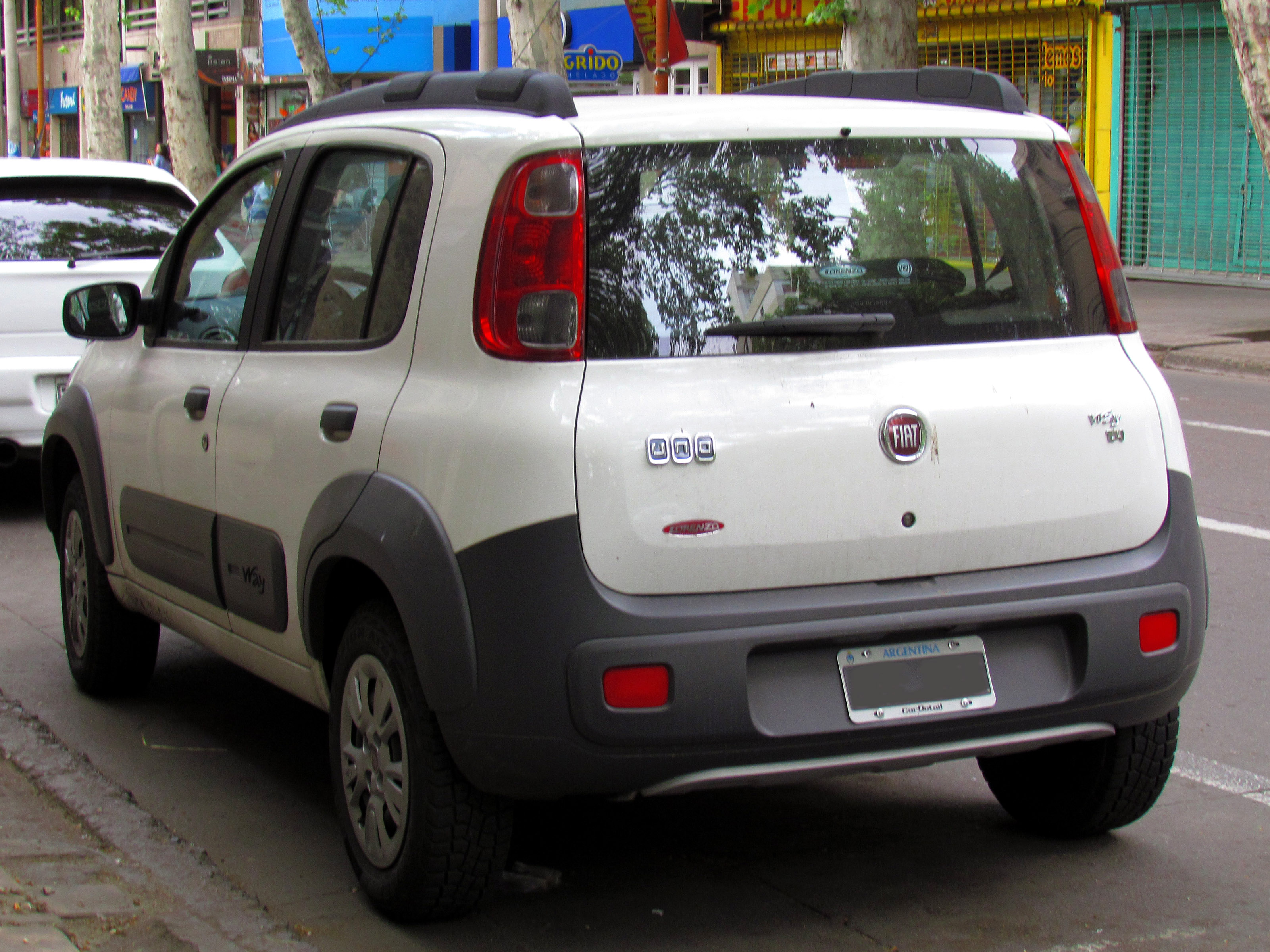 Fiat Uno 1.4 Way 2011